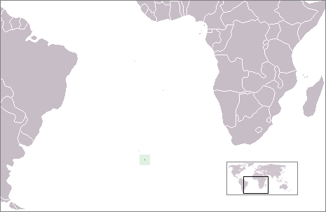 Location of Gough Island in the Atlantic Ocean